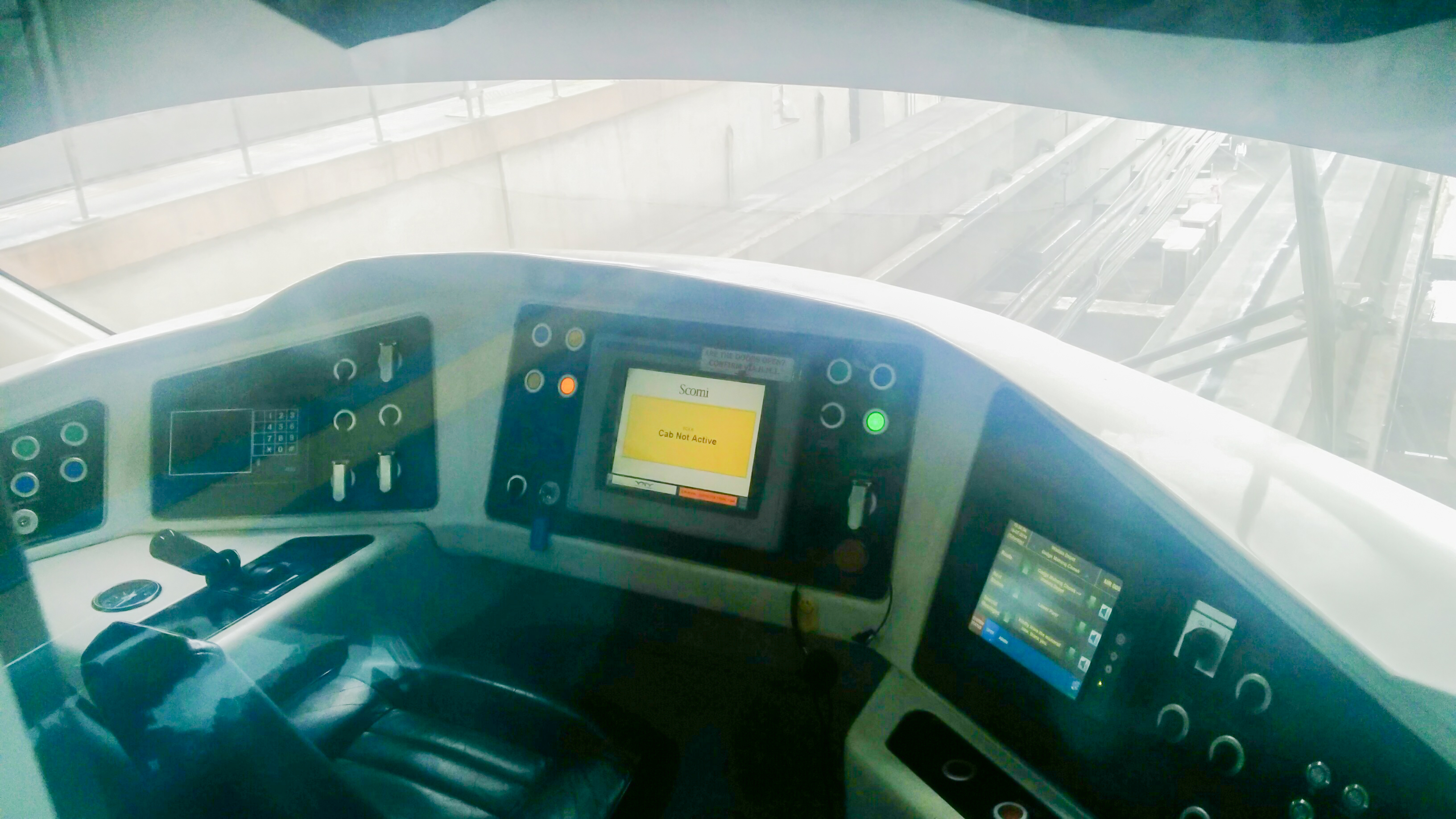 Mumbai Monorail Cab